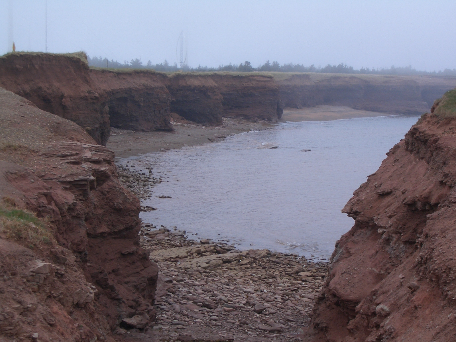 Sandstone cliffs at North Cape, enshrouded in fog.